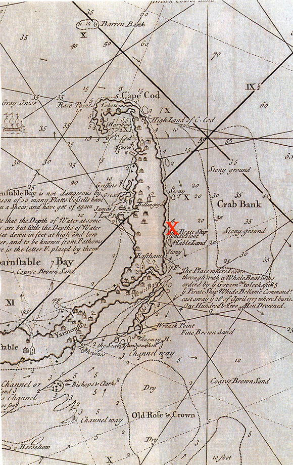 The location of the pirate ship Whydah Gally, captained by the famous "Black Sam" Bellamy, which wrecked off the coast of in Cape Cod on April 26, 1717, killing Bellamy and all but 2 of his 145 men, and taking over 4.5 short tons (4.1 tonnes) of gold, silver, and other pirate treasure down with it. Hearing of the shipwreck, then-governor Samuel Shute dispatched Captain Cyprian Southack, a local salvager and cartographer, to recover "Money, Bullion, Treasure, Goods and Merchandizes taken out of the said Ship." By May 3, when Southack reached the location of the wreck, he found that a part of the ship was still visible breaching the water's surface and much of the ship's wreckage were scattered along more than four miles (6 km) of shoreline. He created this map (Whydah-map.jpg) of the wreck site, and reported that he had buried 102 of the Whydah crew and captives that had washed ashore. They had not found any significant treasure, but he wrote, "The riches and the guns would be buried in the sand." The sunken treasure remained little more than a local legend until the wreck was discovered in 1984, the first pirate ship wreck ever discovered in North America.